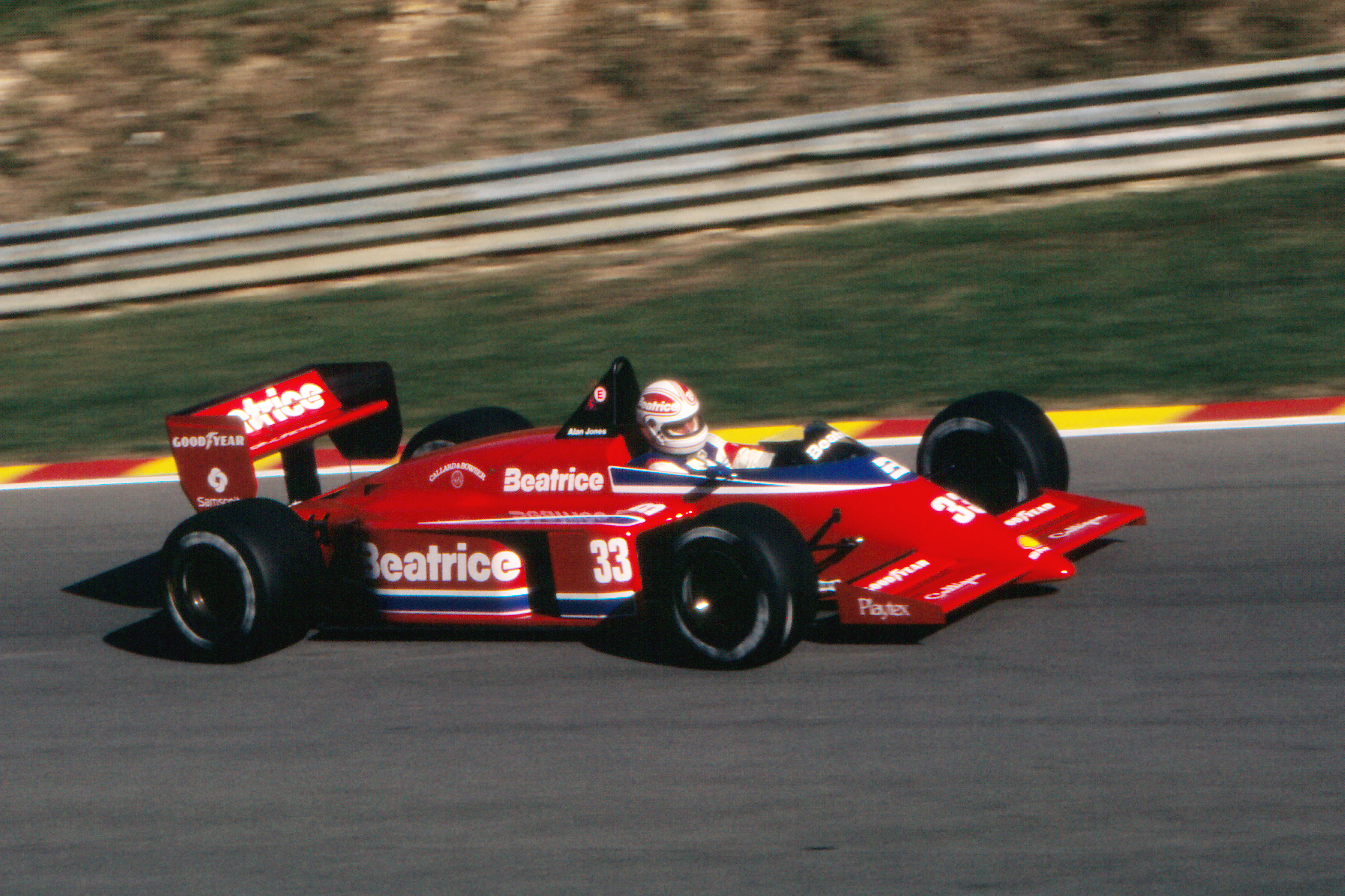 Alan Jones during practice for the 1985 European Grand Prix